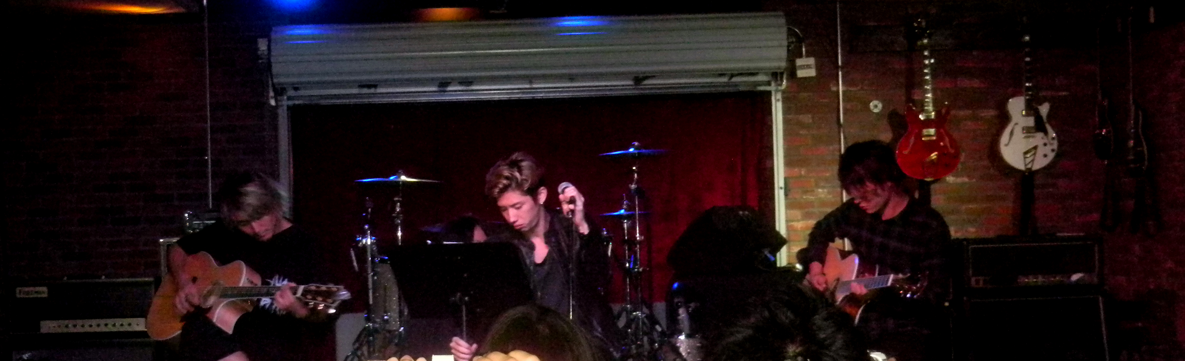 Japanese rock band One Ok Rock performing "Decision" at the band's mini acoustic live performance at Lucky Strike Live in Hollywood, California, on October 22, 2015.I originally uploaded the image at Flickr under my account DiverseMentality (this was my original username on both the English Wikipedia and Commons). I cropped the original image to focus on the subjects and made slight enhancements. There, it is also licensed under Creative Commons, Attribution and Share Alike.